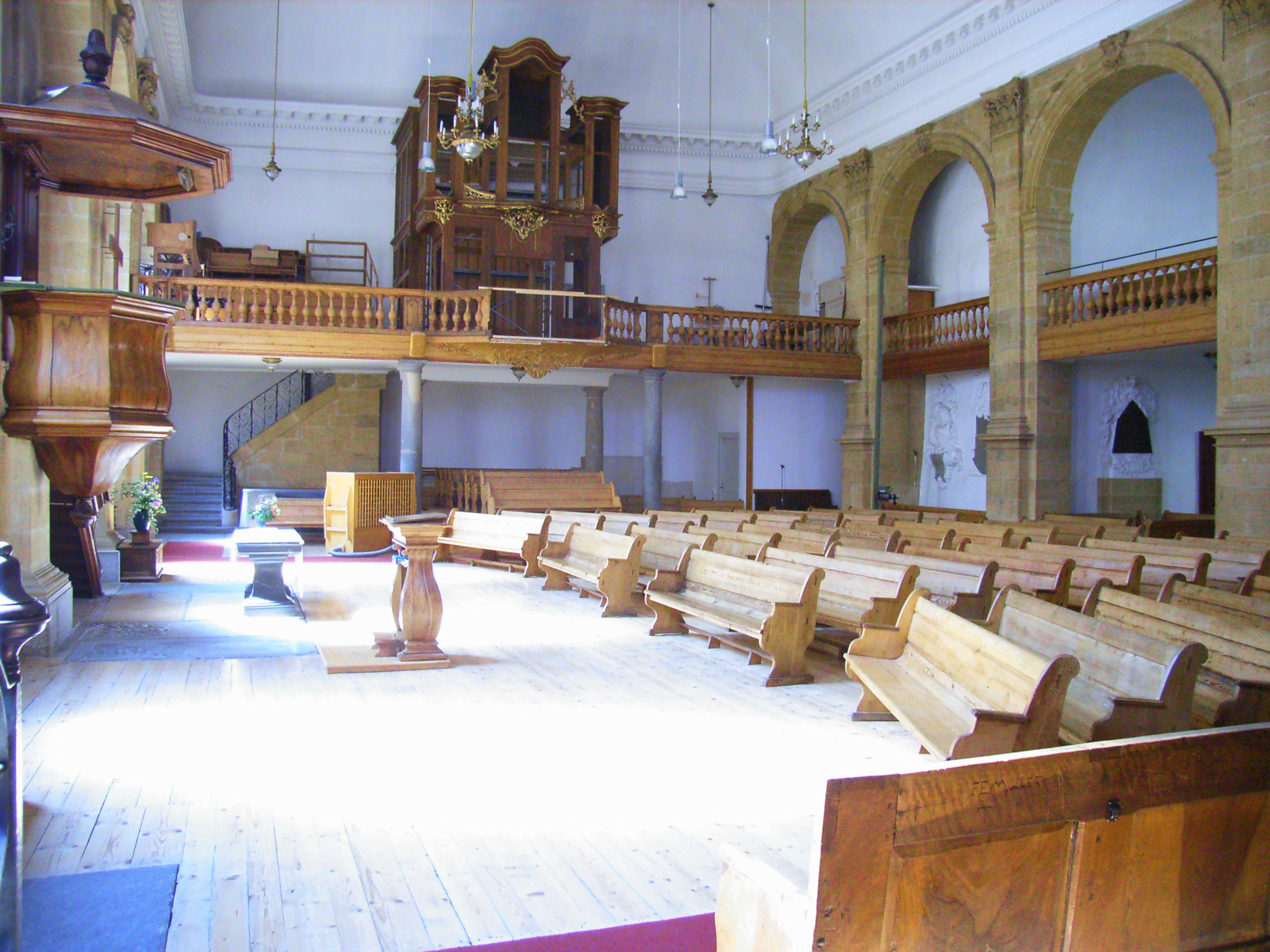 Yverdon, interior of church Notre-Dame (Canton of Vaud, Switzerland)